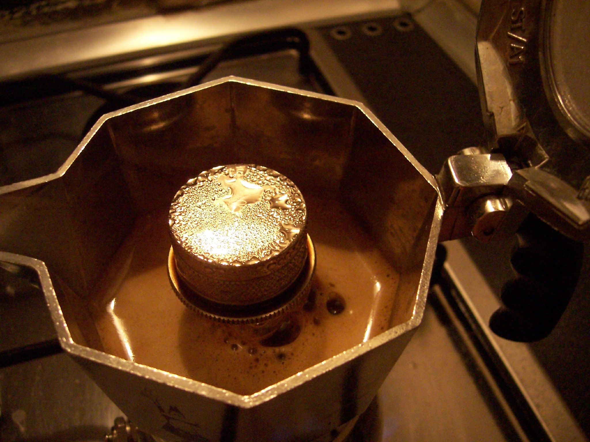 Brikka is an improved Moka pot by Bialetti. It incorporates a weight on top of the nozzle that causes pressure to build up inside the water tank in a manner similar to old style pressure cookers. It is designed to give a crema foam similar to that of an espresso machine.